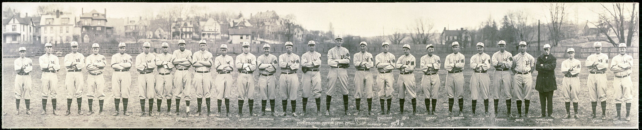 1914 Pittsburgh Rebels baseball team photo